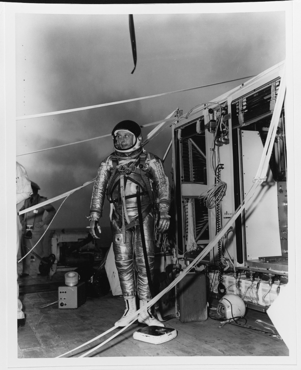 Dressed in his space suit, just prior to entering the balloon gondola on board USS ANTIETAM (CVS-36) during project Strato-Lab, 4 May 1961.